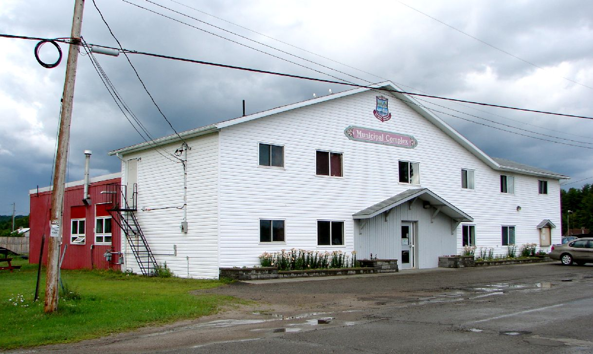 Huron Shore municipal building in Iron Bridge, Ontario, Canada